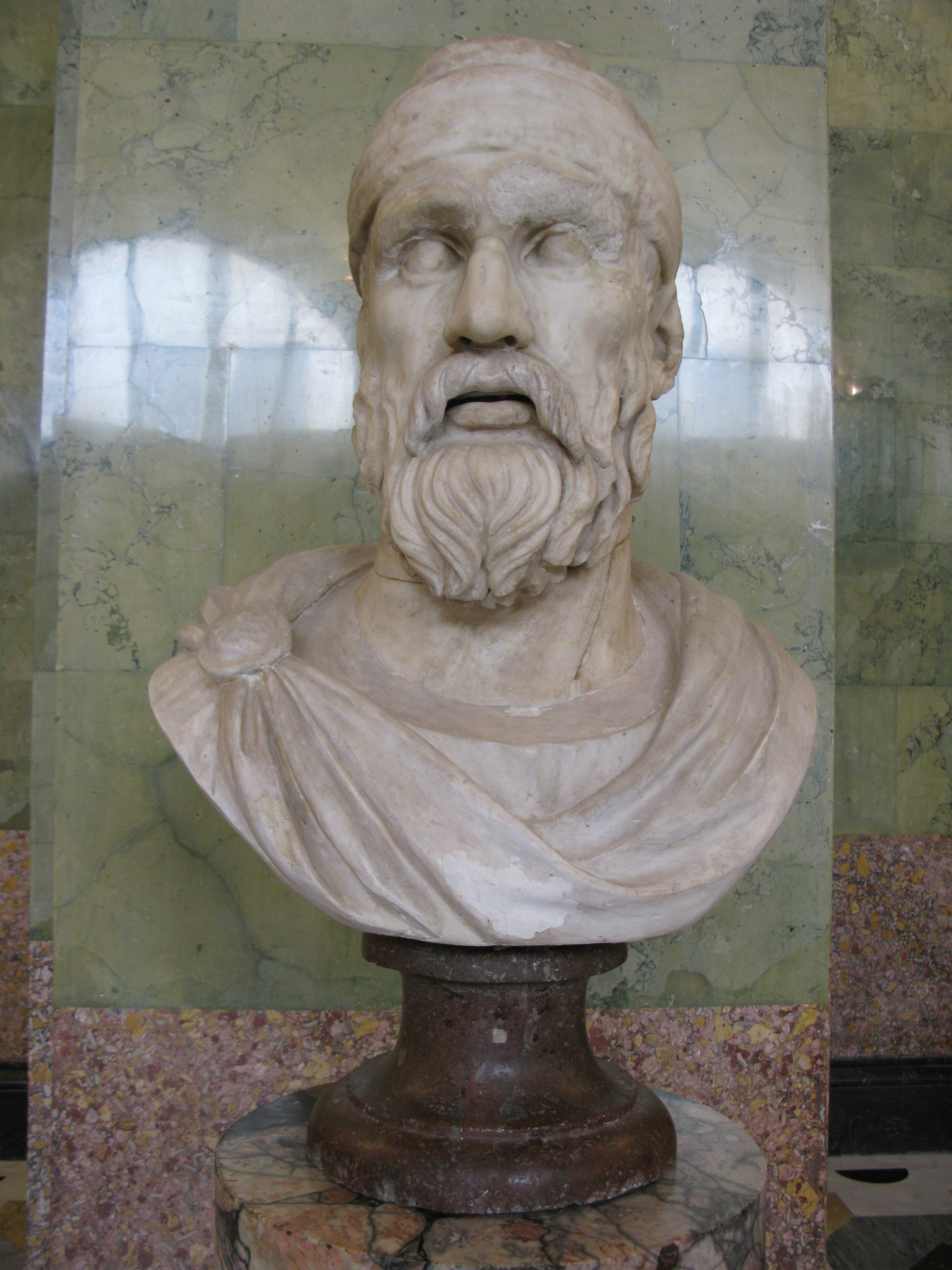 A bust of a Dacian (ancient people of Dacia) dated early 2nd century AD, marble. Located at St Petersburg - Hermitage - Dacian. Photo of it is taken in August 8, 2008 in Novaya Gollandiya, St. Petersburg, RU by thisisbossi Andrew Bossi and found on Flickr as CC-BY-SA